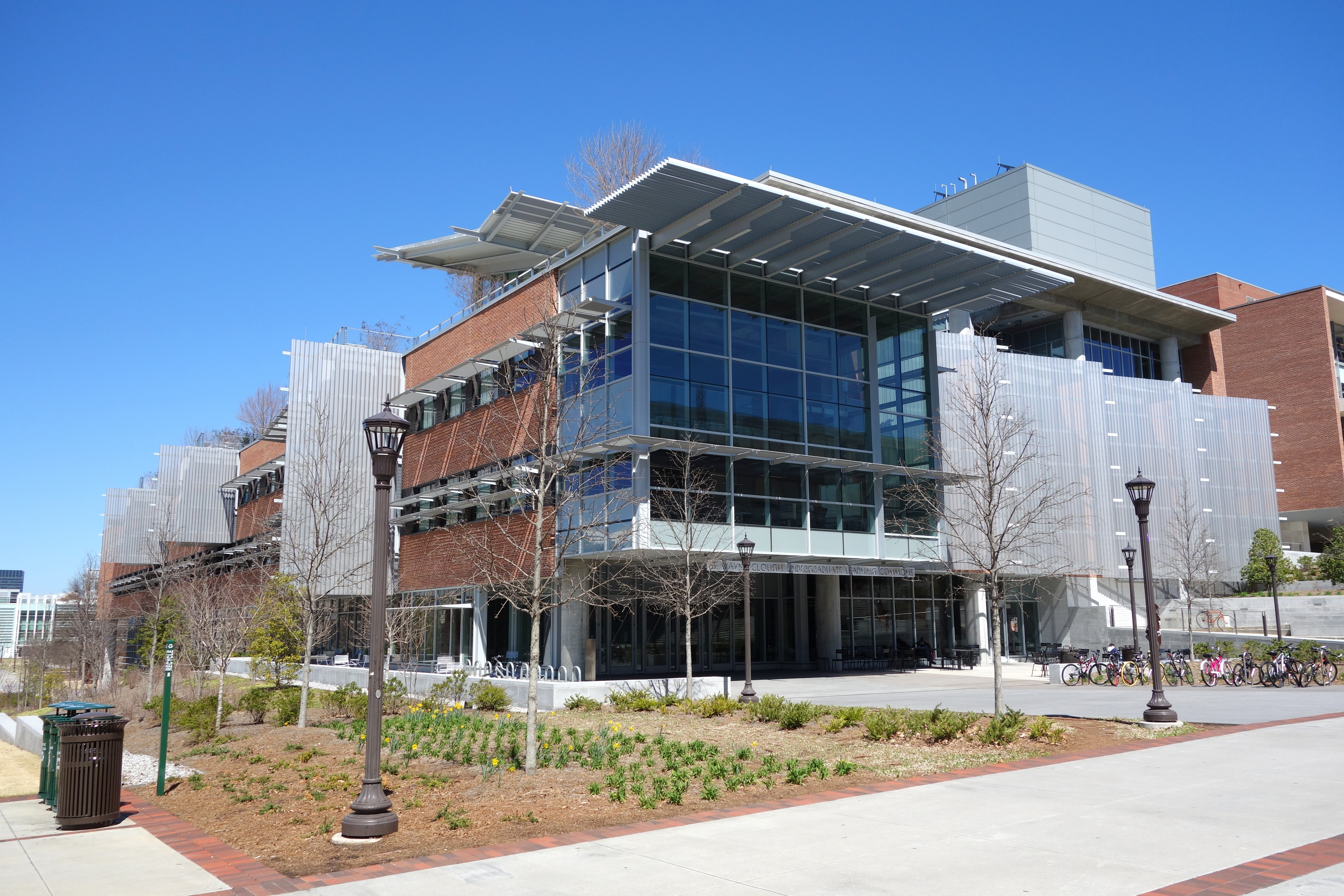 Building on the campus of Georgia Institute of Technology, Atlanta, Georgia, USA.